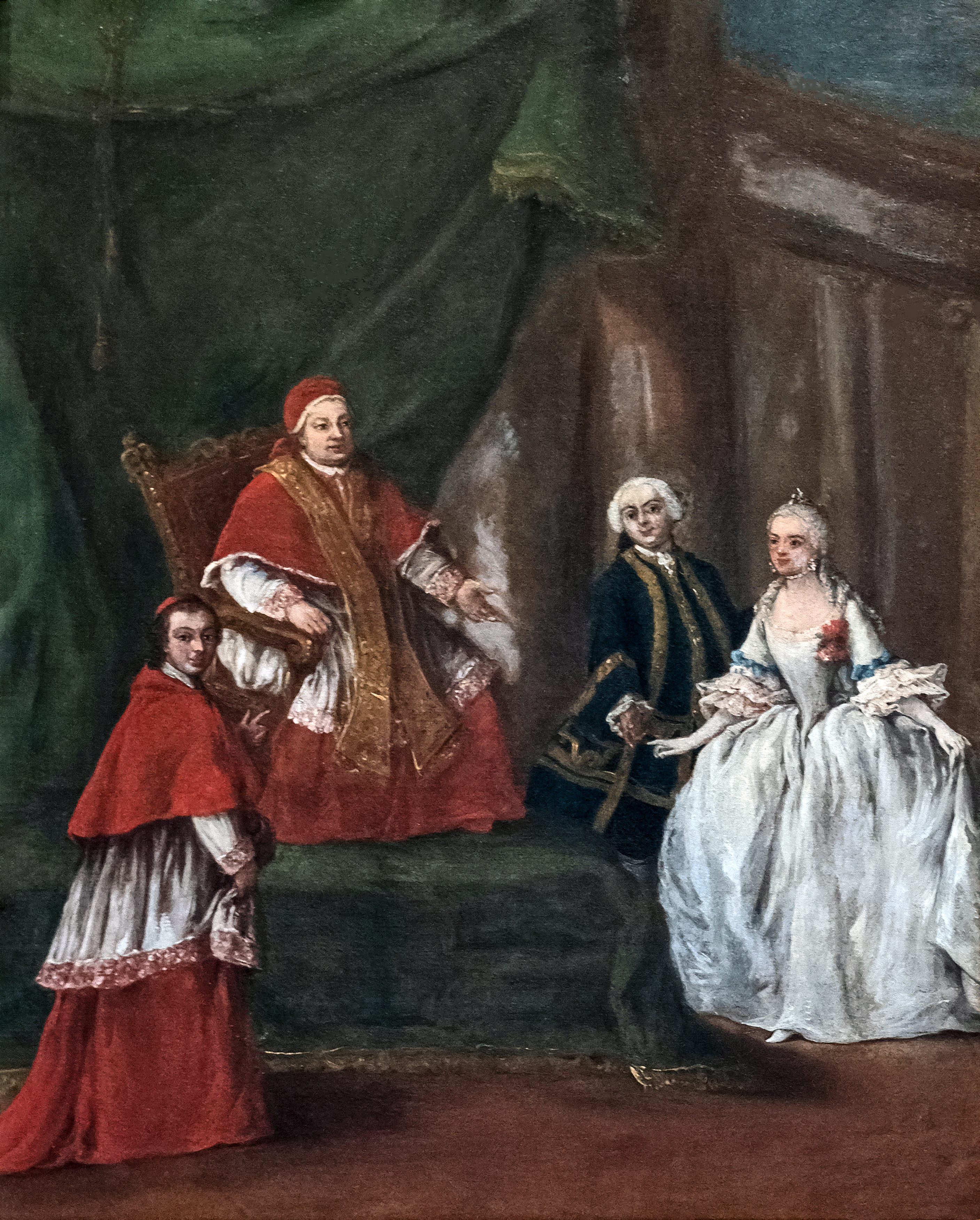 Depicted person: Carlo Rezzonico – Catholic cardinal Depicted person: Clement XIII – 18th-century Catholic pope